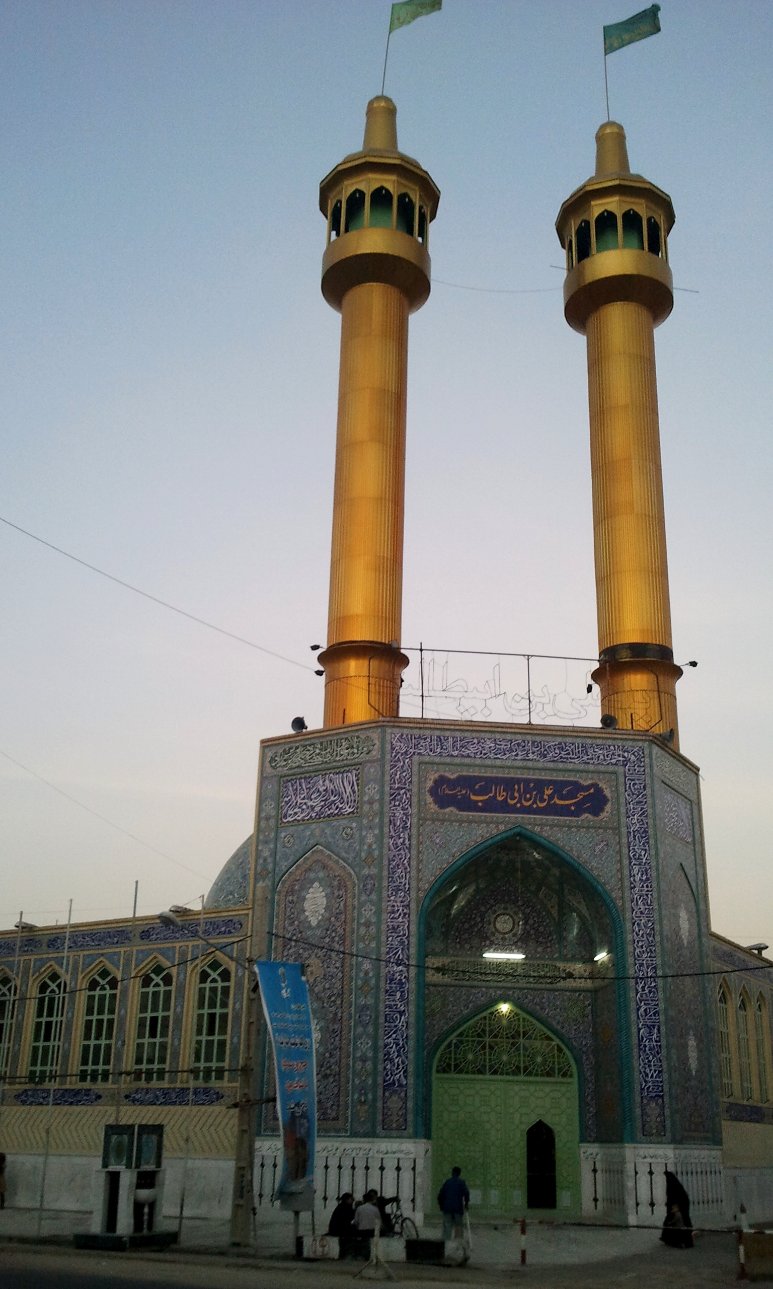 Zahedan